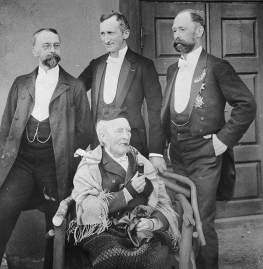 In chair: Westye Martinus Egeberg (1805–1898), a norwegian businessman, here celebrating his 90th year (this is 1895, not 1890 as the filename indicates). His nephews are at left: Einar Westye Egeberg (1851–1940), middle: Theodor Christian Egeberg (1847–1915), doctor to the king (Haakon VII), and at right, Ferdinand Julian Egeberg (1842–1921), chambermaid to king (Oscar II)